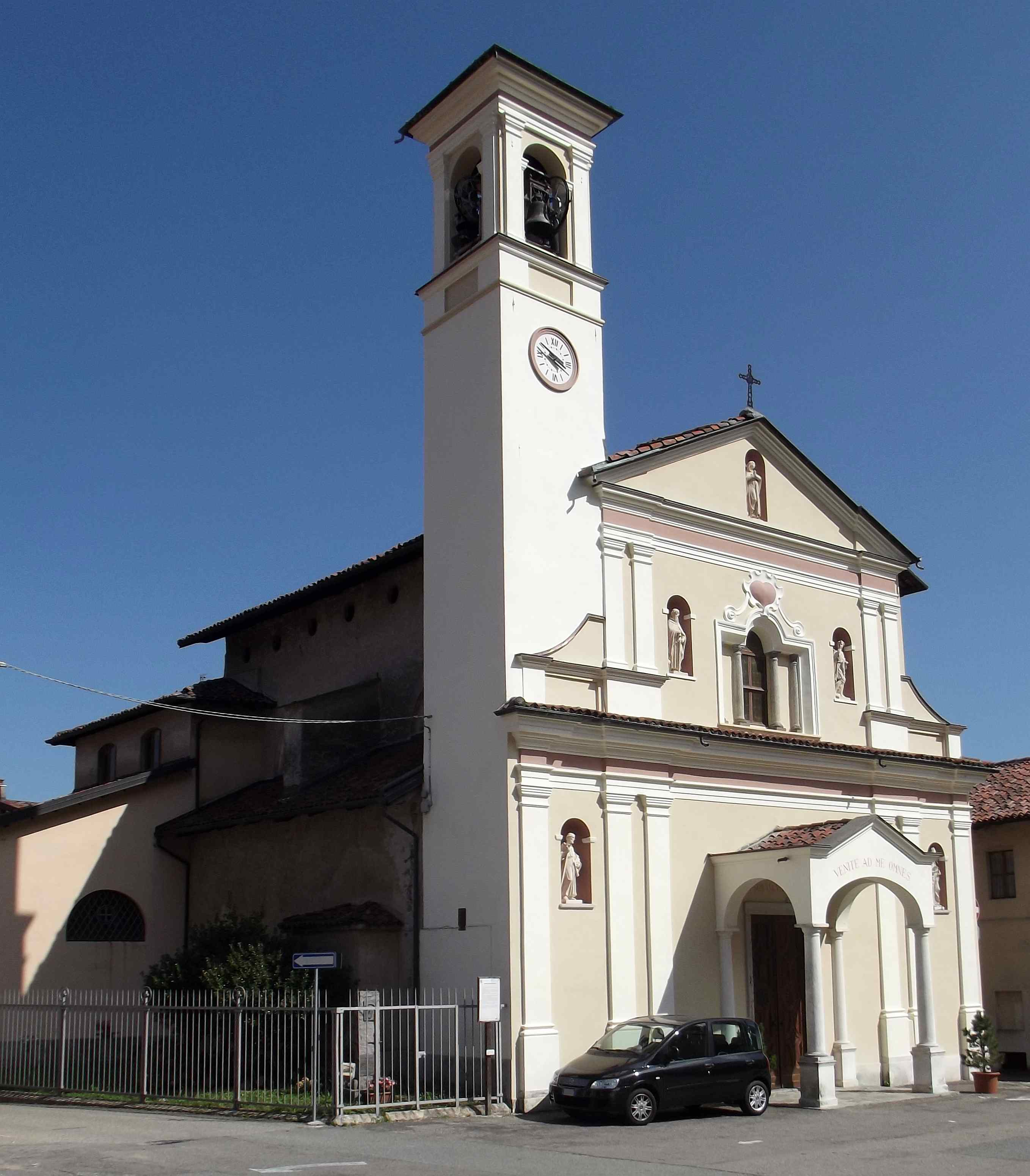 Miagliano (BI, Italy): parish church of s. Antonio Abate